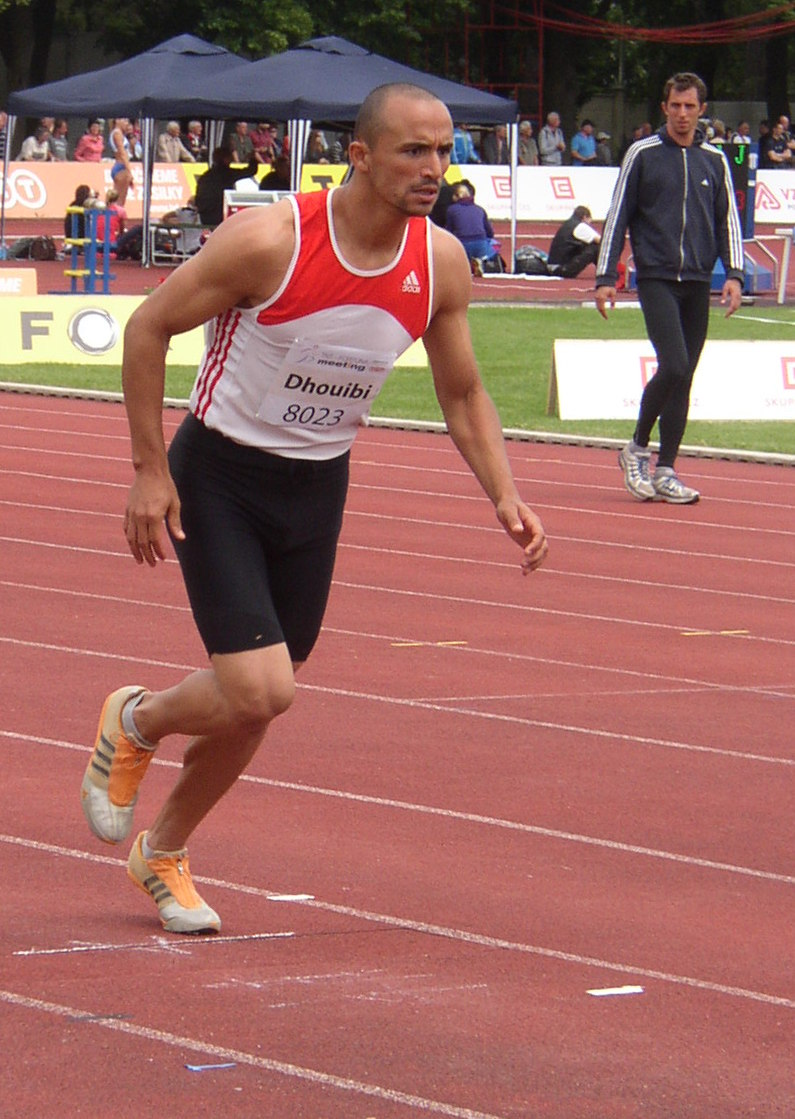 Athlete Hamdi Dhouibi of Tunisia starting his attempt in long jump during men's decathlon at 4th edition of the TNT - Fortuna Meeting (IAAF World Combined Events Challenge Meeting, Sletiště Stadium, Kladno, Czech Republic, 15 June 2010, 13:23).